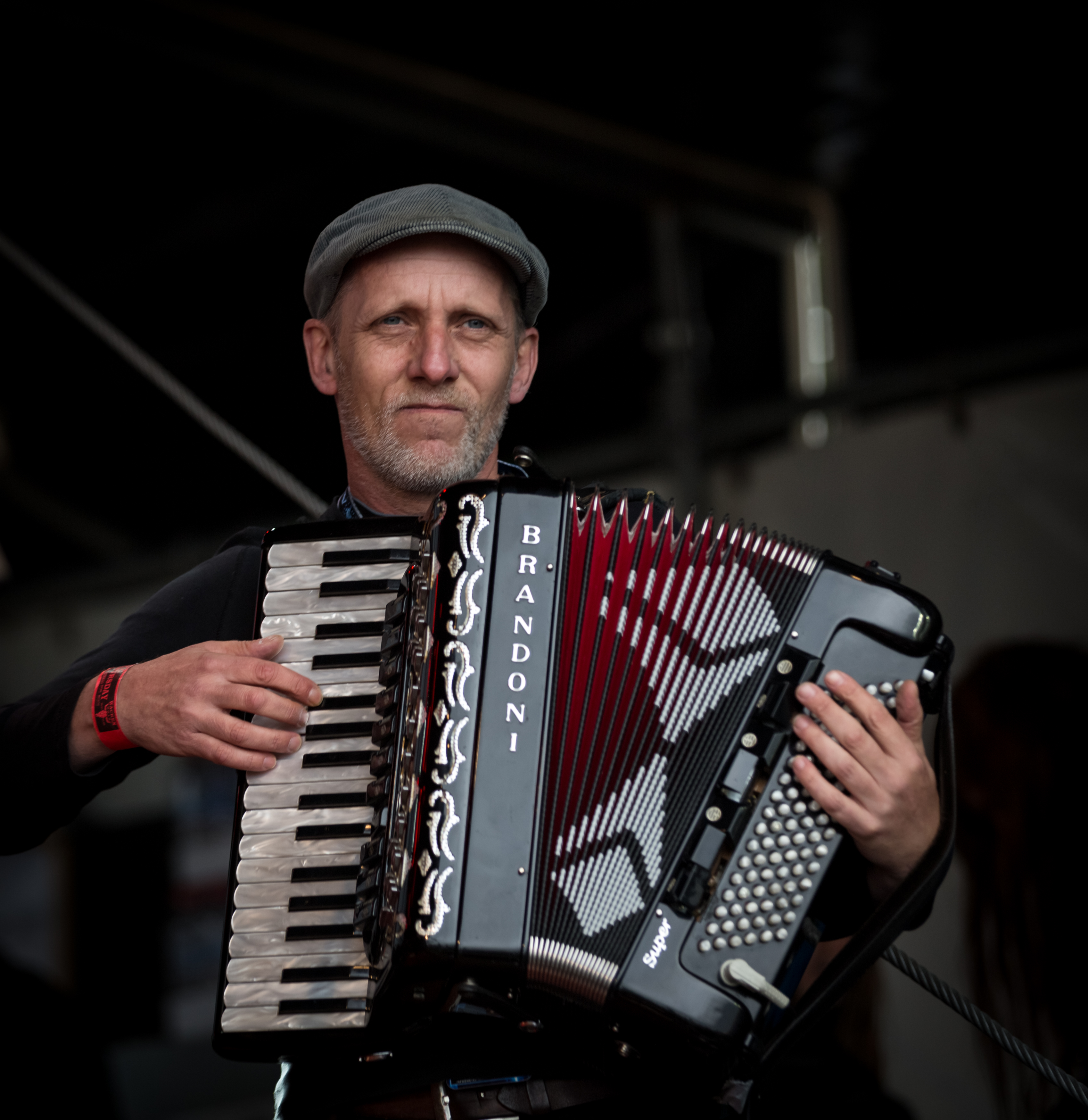 Baltic Sea Child playing a Brandoni Super (Mod-75) accorian- Wacken Open Air 2015